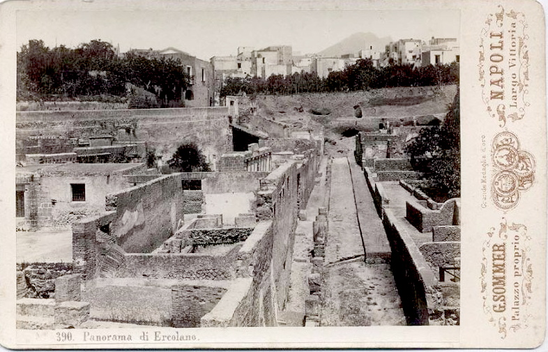 Giorgio Sommer (1834-1914), "View of Herculaneum". Catalogue number: 390.